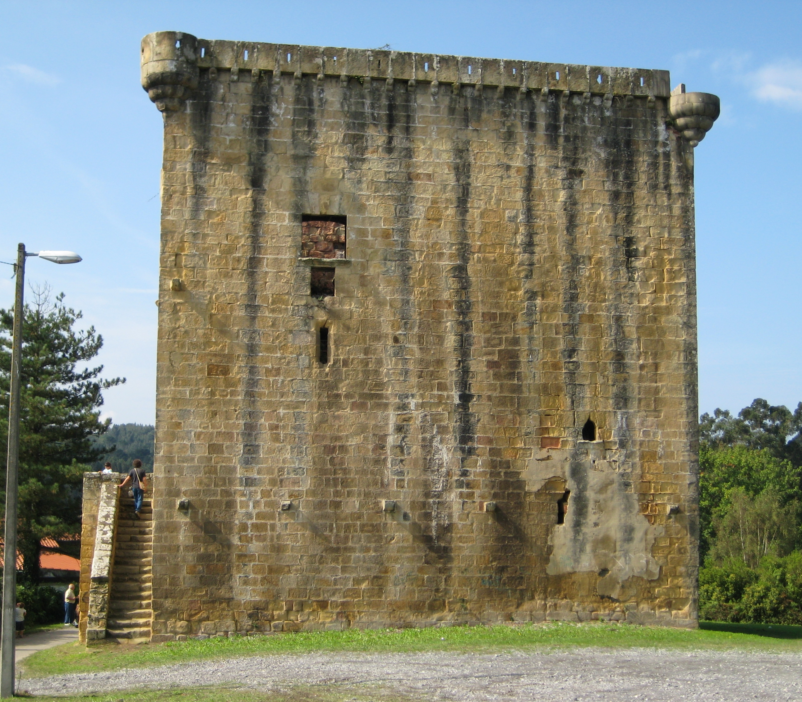 Martiartu tower, Erandio, Biscay